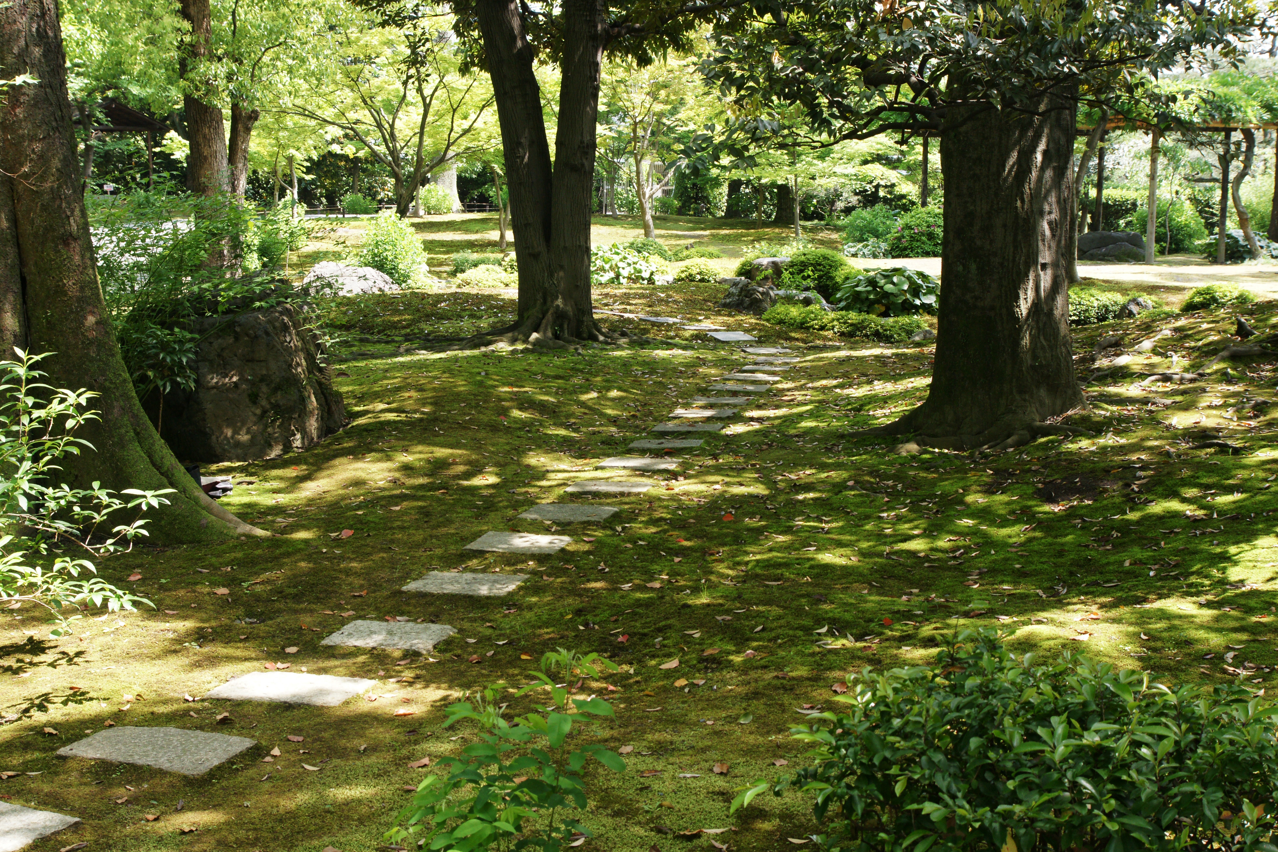 Jonangu in Fushimi, Kyoto, Kyoto prefecture, Japan